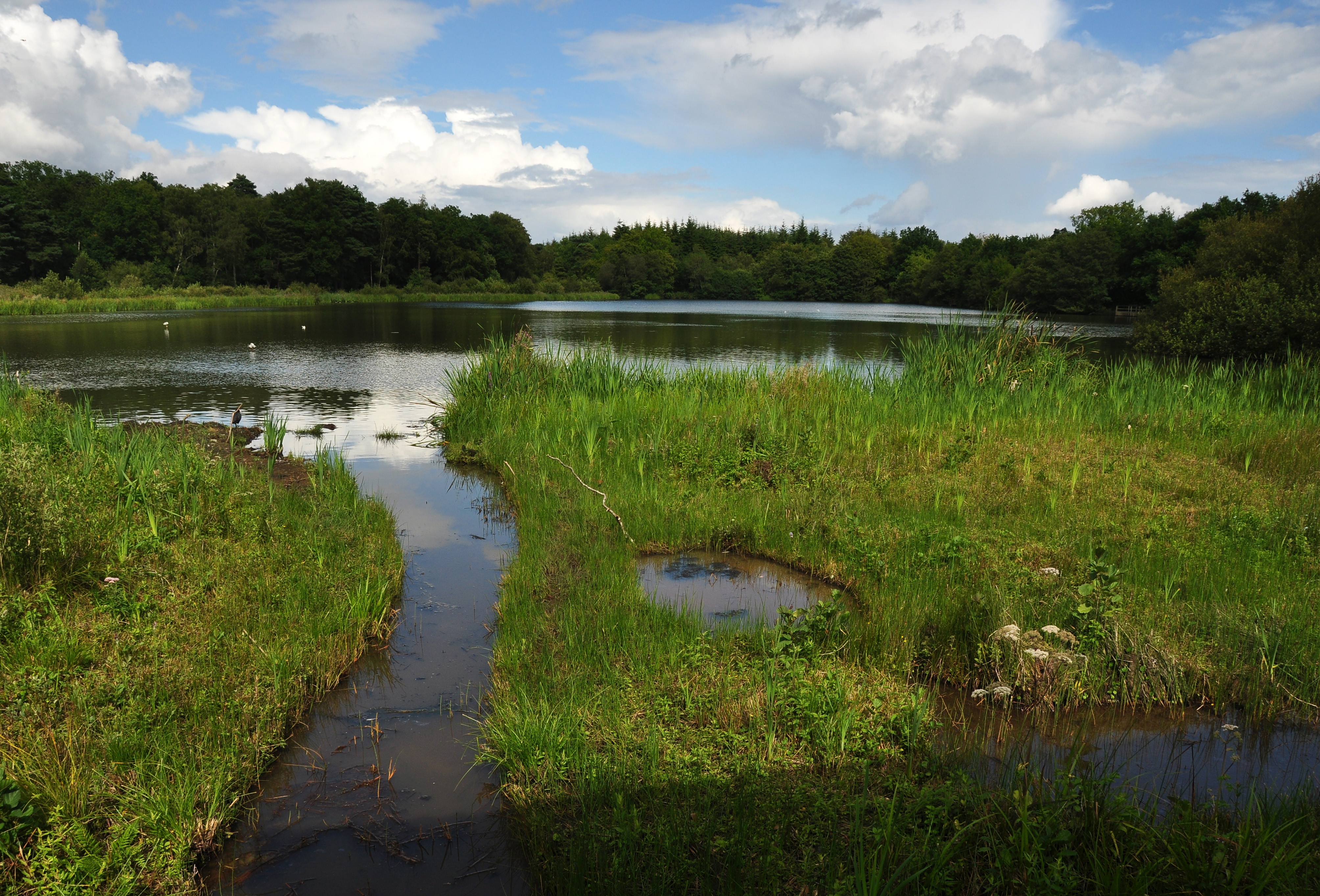 Stover Lake, near Newton Abbot in Devon.